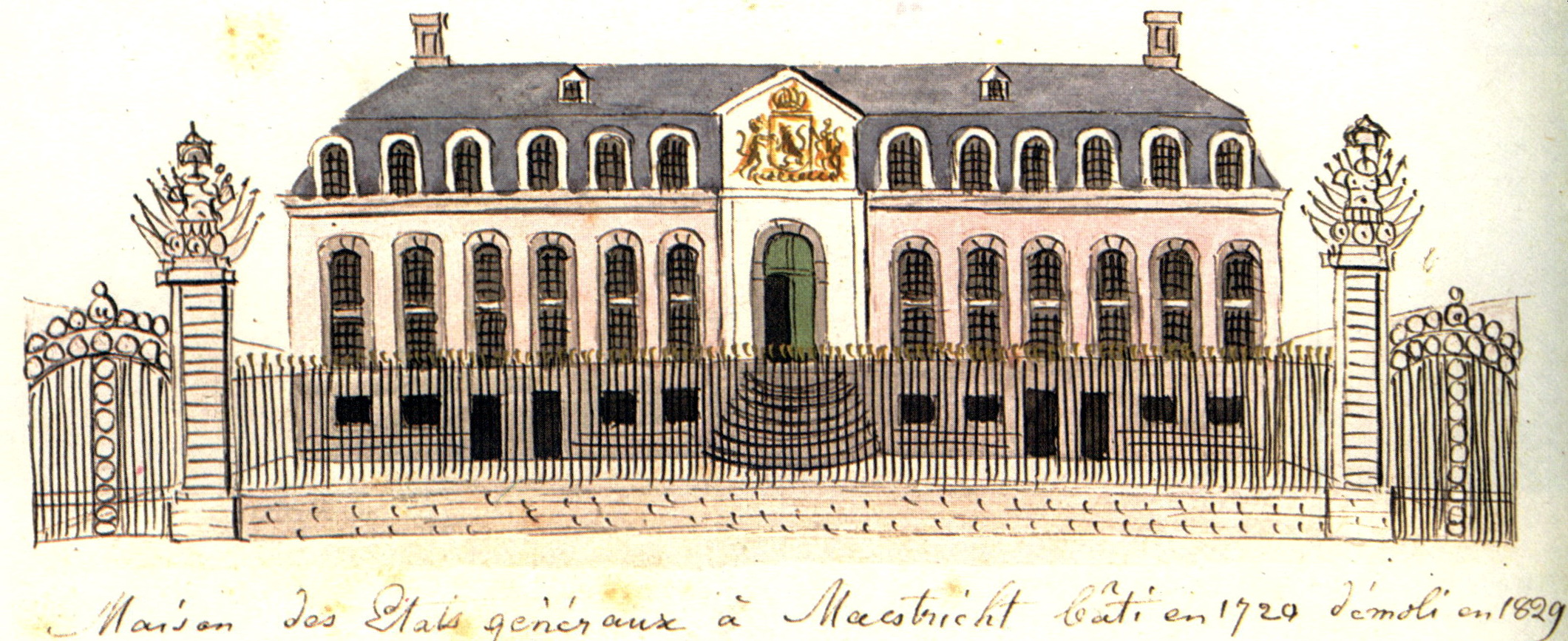 View of Statenhuis, Maastricht, the Netherlands (built in 1720; demolished in 1829). Drawing by Philippus van Gulpen (c 1840-60)